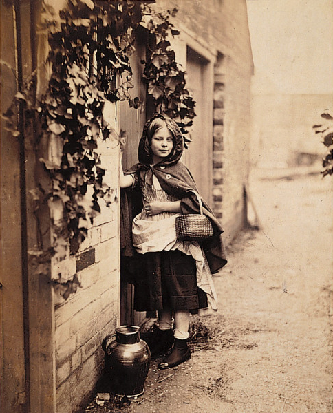 Little Red Riding Hood Arrives at the Door of Her Grandmother's House. Albumen print, 9 3/16 x 7 3/8 in. (23.3 x 18.7 cm).